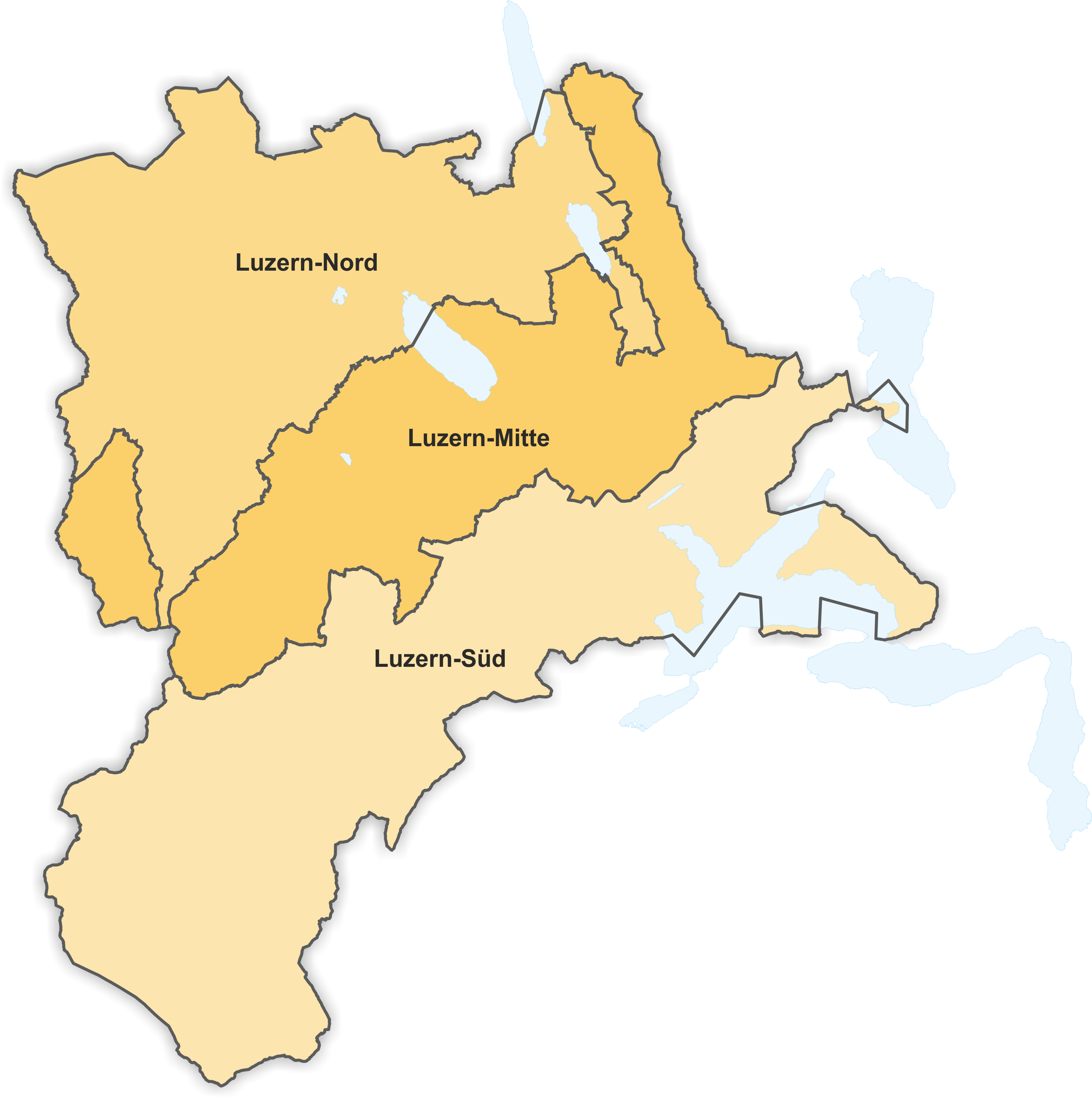 National council constituencies in the canton of Lucerne from 1851 to 1869